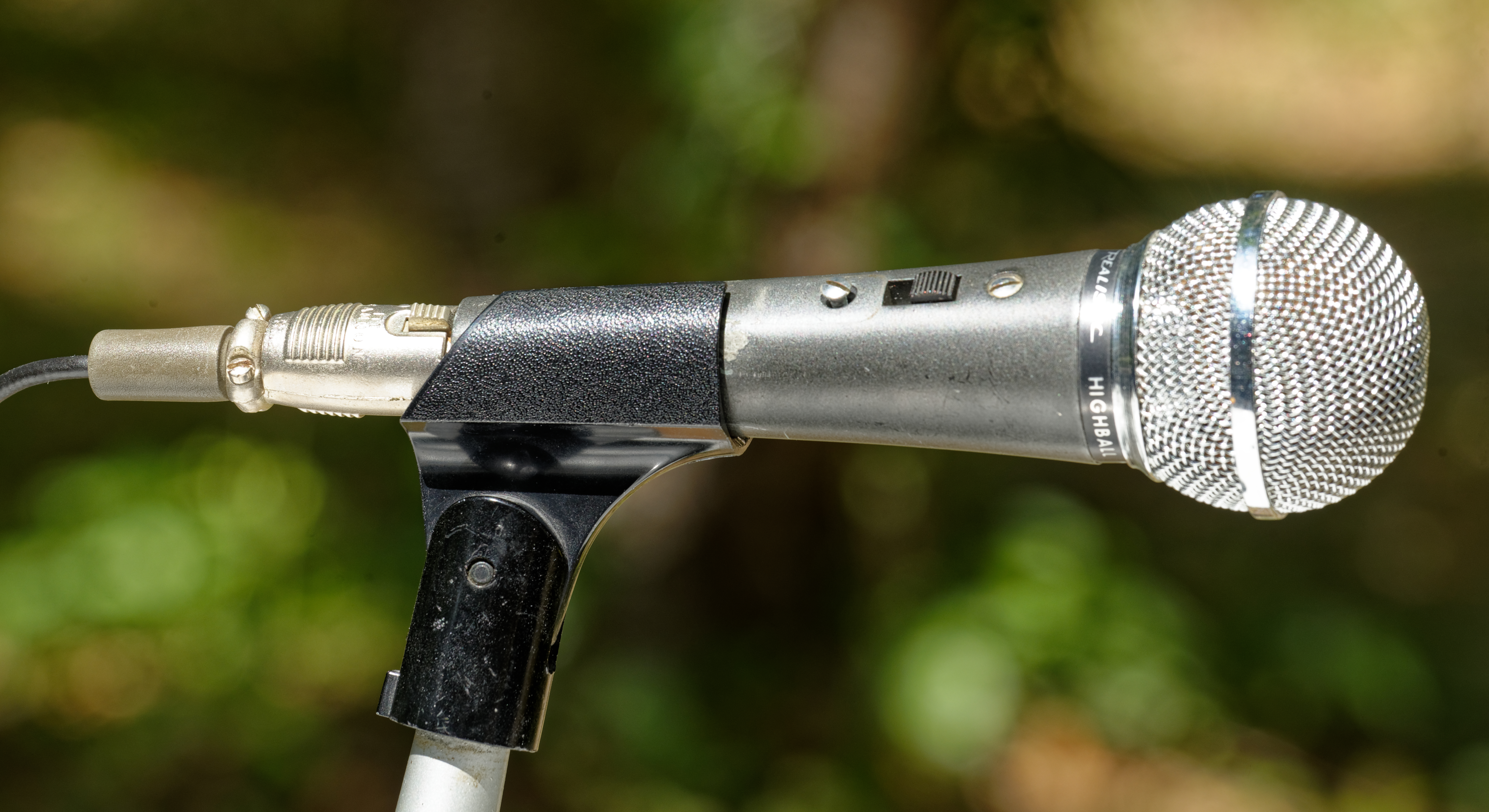 Shure 588SD microphone, branded as Realistic Highball, circa 1970. A lower-cost version of the SM58, the 588SD has a on/off switch and can be set for high impedance or low impedance. (The plastic locking mechanism that was attached to the lower screw broke off.)